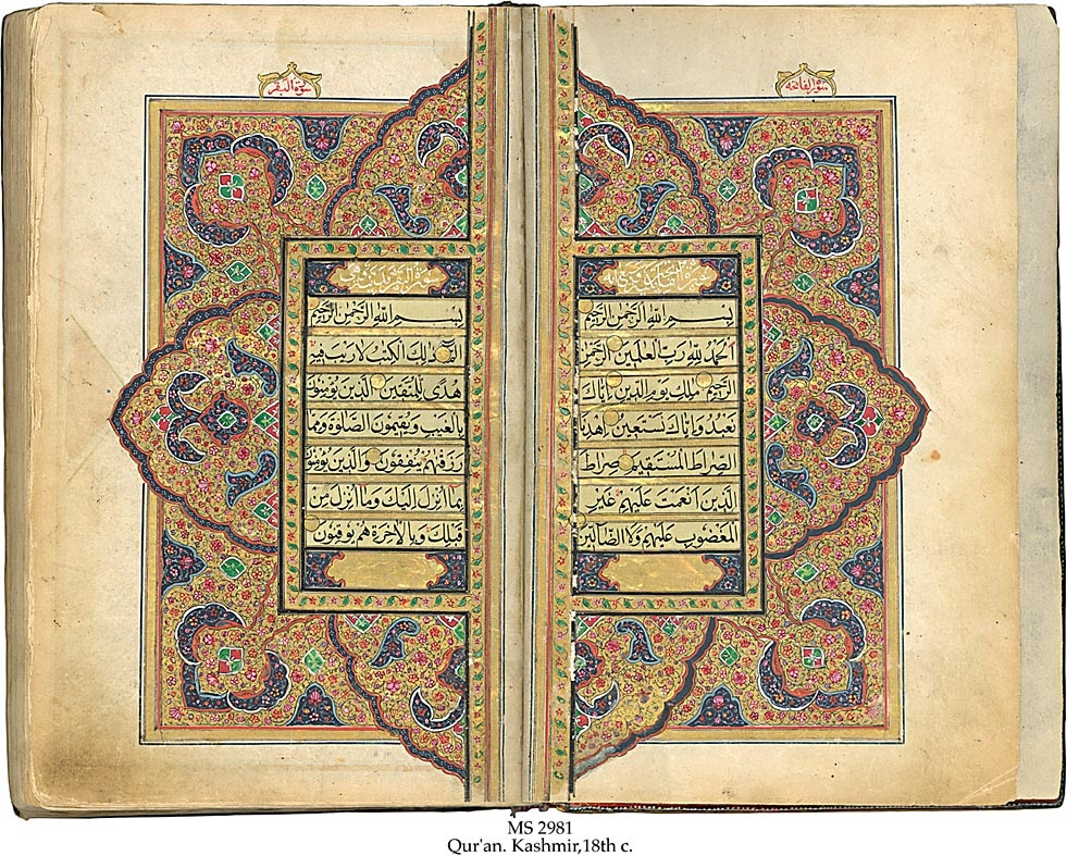 ManuScript in Arabic on polished paper, Kashmir,18th c., 339 ff., 22x14 cm, single column, (15x9 cm), 14 lines in Naskh book script, within a thick frame of gold, orange, green and blue, the lines separated by a thick gold line, verses separated by gold dots, each sura introduced with a panel of gold and blue with script in white, 9 double openings with full borders with extensive and rich foliage and floral designs in gold and colours by a highly skilled artist. Binding: Kashmir, 18th c., lacquered boards with extensive foliage and floral designs in gold and colours in the style of Kashmir carpets, on both sides of the boards, later red leather spine, sewing covered. Provenance: 1. Private collection, London (1980'ies-2000).